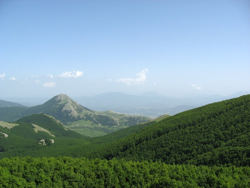 Monti Volturino e Viggiano